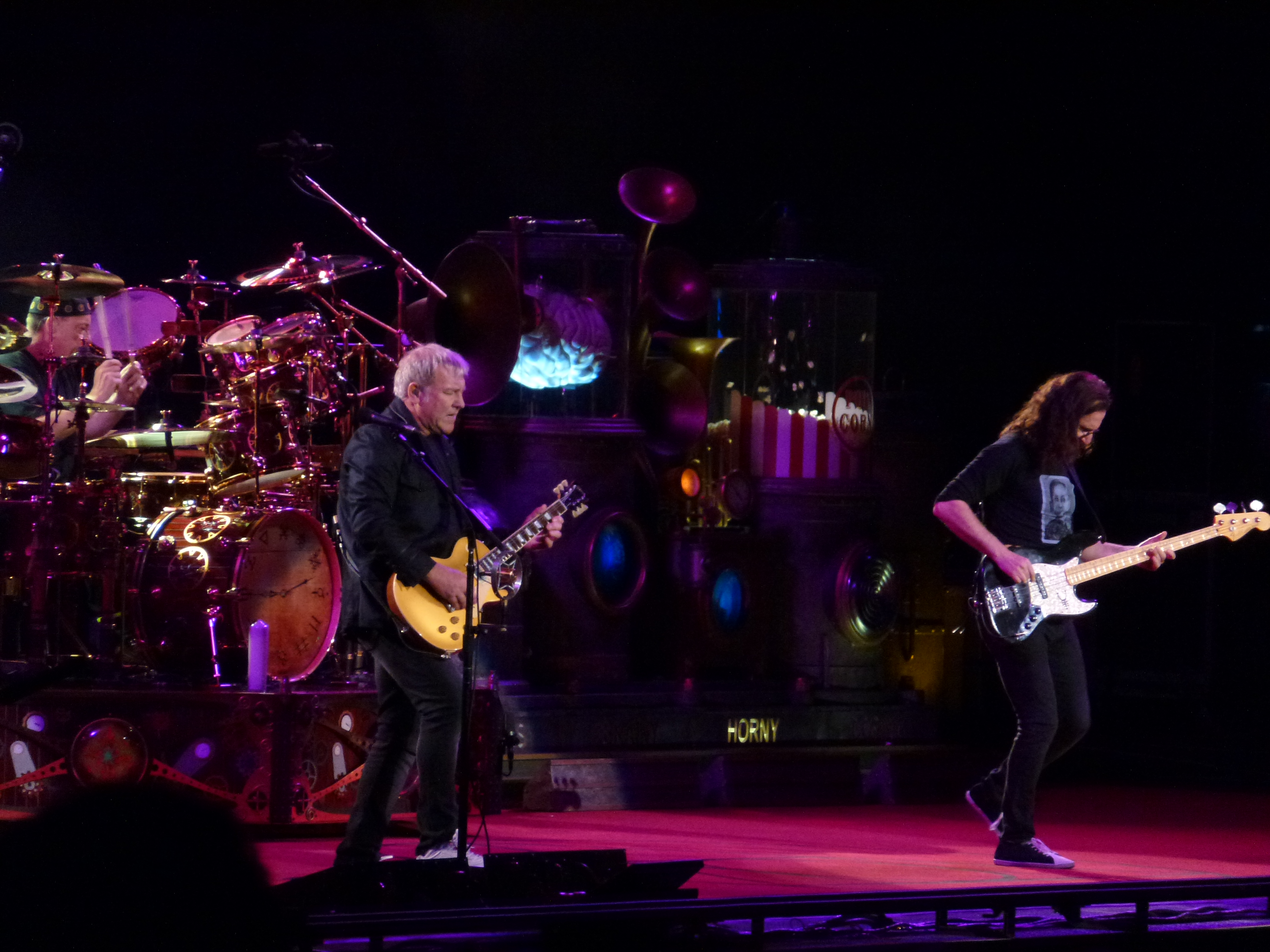 Rush September 9 2012 at Jiffy Lube Live Bristow VA / Washington DC